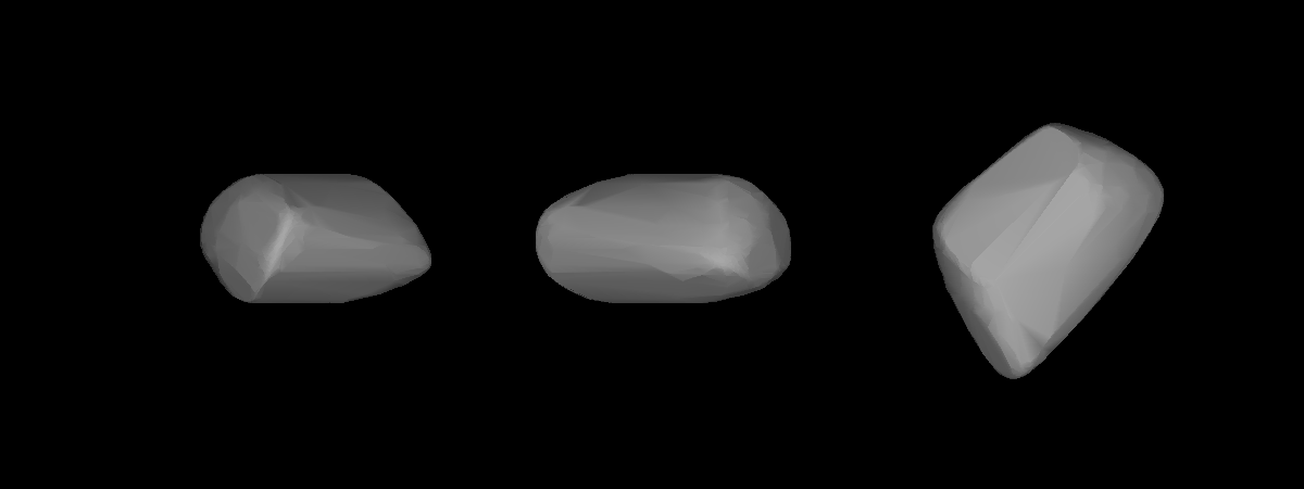 A three-dimensional model of 1980 Tezcatlipoca that was computed using light curve inversion techniques.